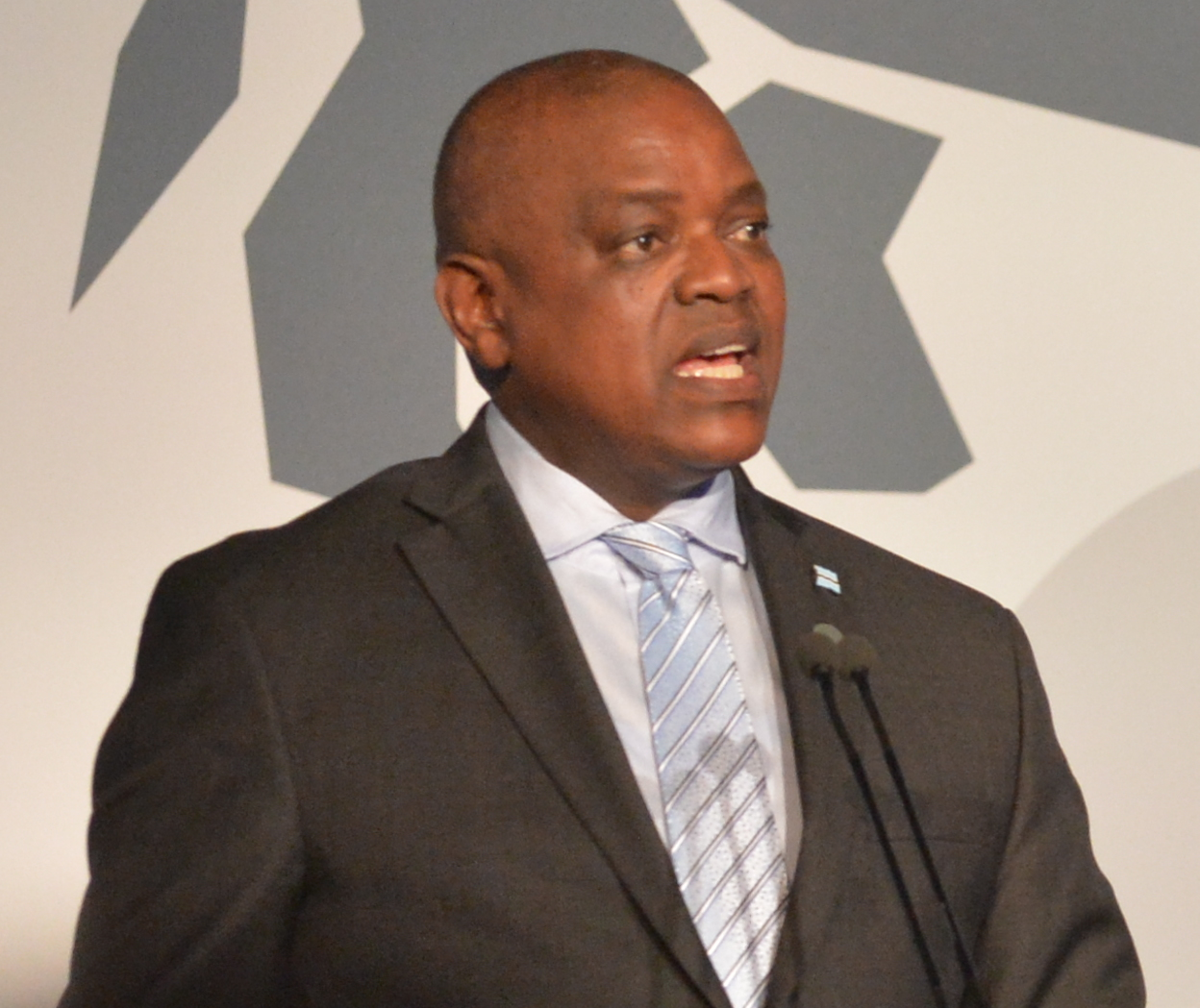 His Excellency Mokgweetsi Masisi, The President of Botswana speaking at the Illegal Wildlife Trade Conference: London 2018, 11 October 2018. Photographer: Mark Mackenzie